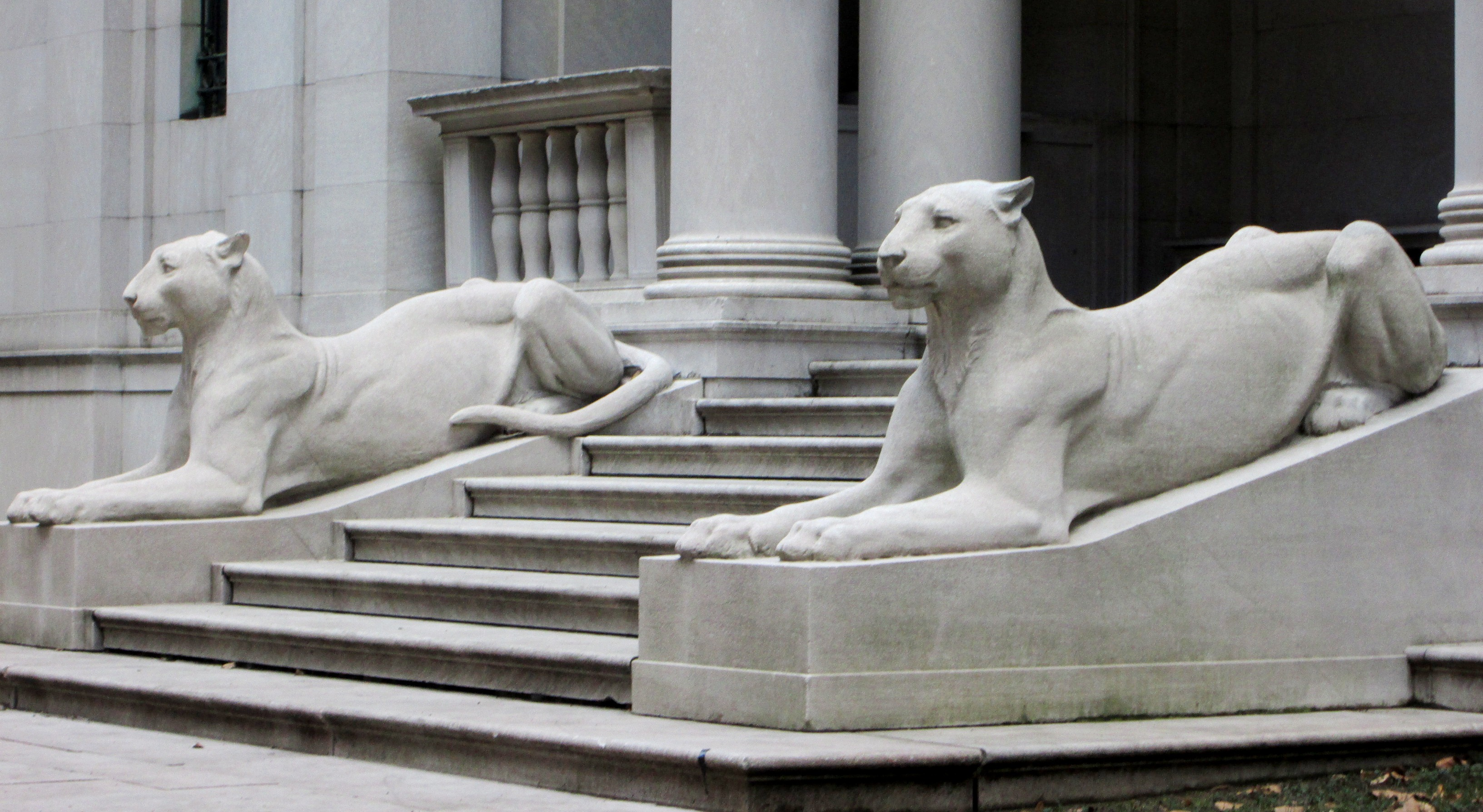 The Morgan Library & Museum (formerly the Pierpont Morgan Library) is a museum and research library located on Madison Avenue at East 36th Street in Manhattan, New York City. It was founded in 1907 to house the private library of J.P. Morgan, which included, besides the manuscripts and printed books, some of them in rare bindings, his collection of prints and drawings. The original library building was built from 1902-1907 and was designed by Charles McKim of the firm McKim, Mead and White, with sculptures by Edward Clark Potter. It cost $1.2 million. The library was made a public institution in 1924 by his son, in accordance with Morgan's will. An annex building, designed by Benjamin Wistar Morris, was added in 1927-28, and a modernist entrance building, designed by the Renzo Piano Building Workshop and Beyer Blinder Belle, was added in 2006. (Source: Guide to NYC Landmarks (4th ed.))